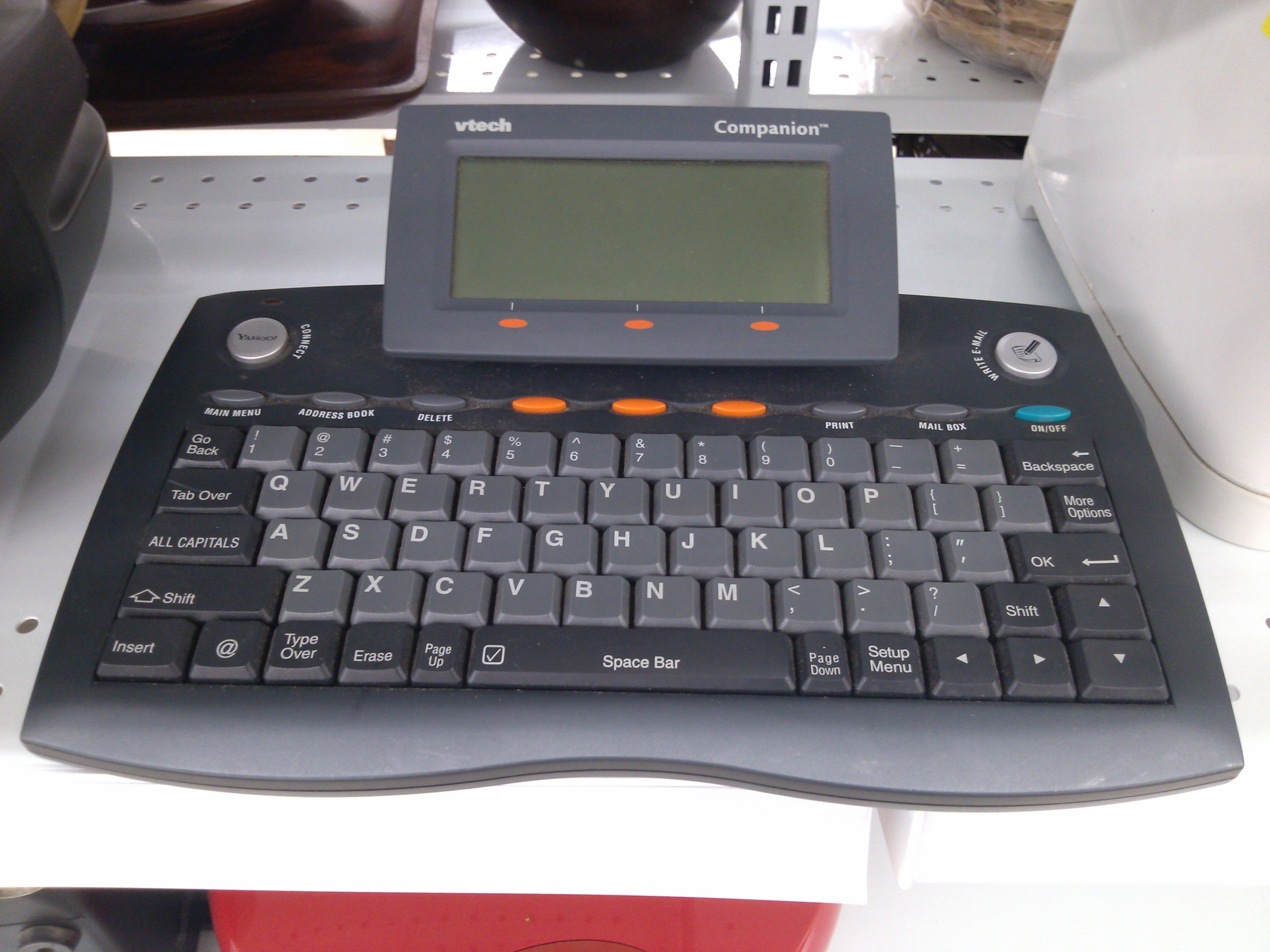 A VTech Model 80-36447 Internet appliance seen in a Thrift Shop.